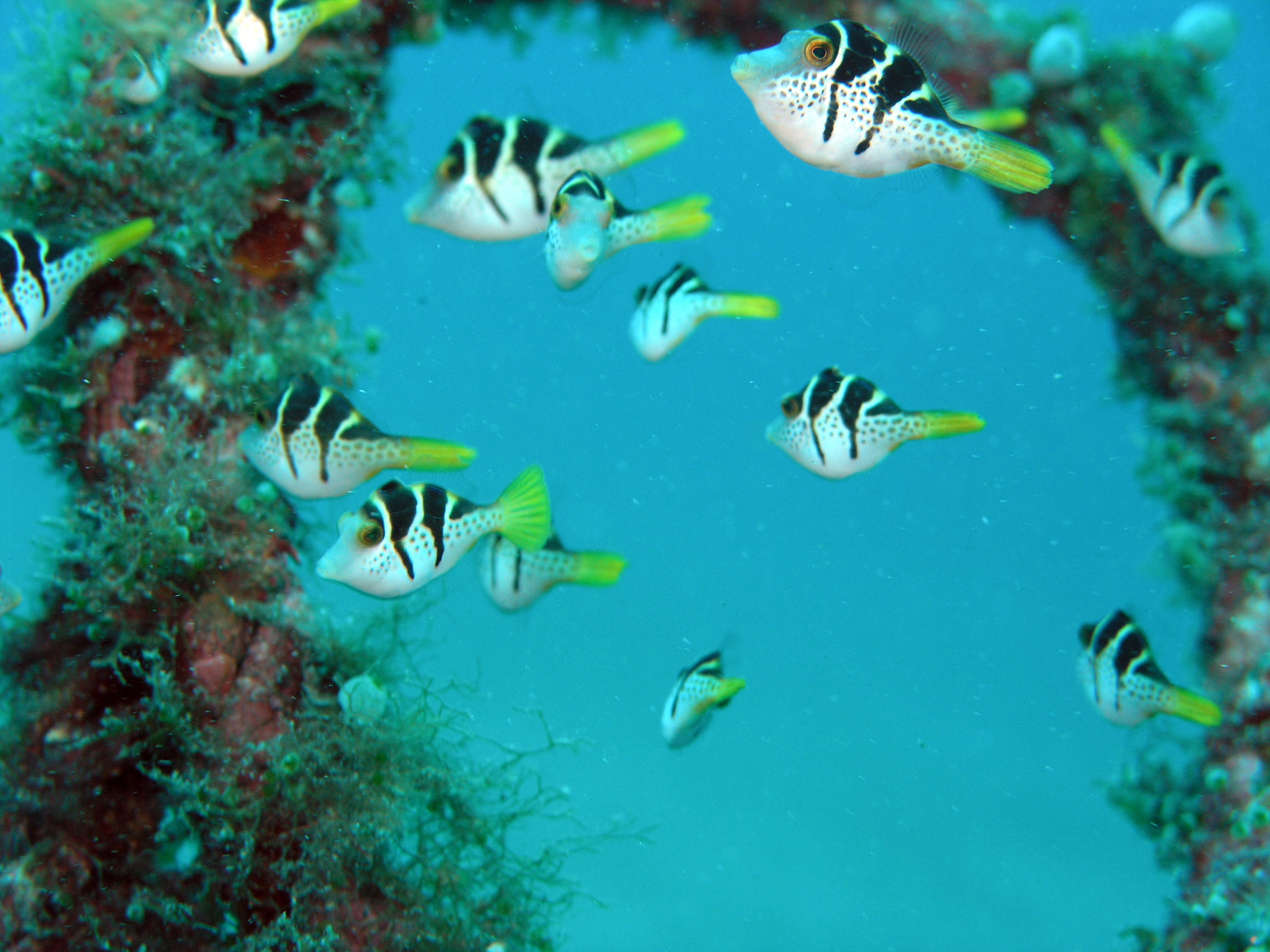 Picture of Blacksaddle filefish. Paraluteres prionurus. Taken at Tasik Ria, Manado, Indonesia.